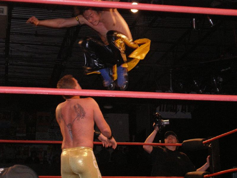 Professional wrestler KUDO performing a diving double knee drop on Icarus.